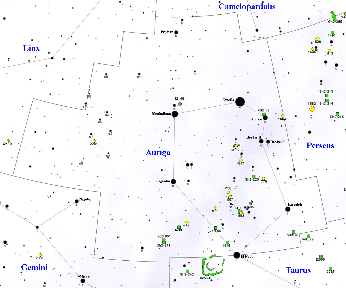 Auriga constellation map, with DSOs